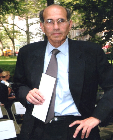 Richard Axel (born July 2, 1946)